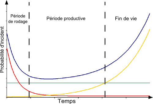 Courbe en baignoire maintenance